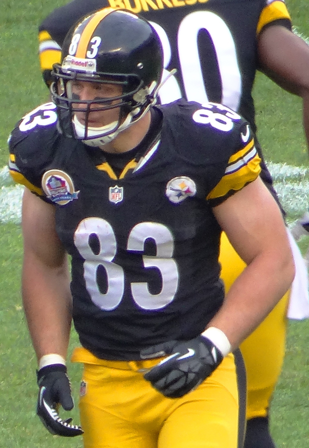 Pittsburgh Steelers tight end Heath Miller in San Diego's Qualcomm Stadium for a game vs the Chargers